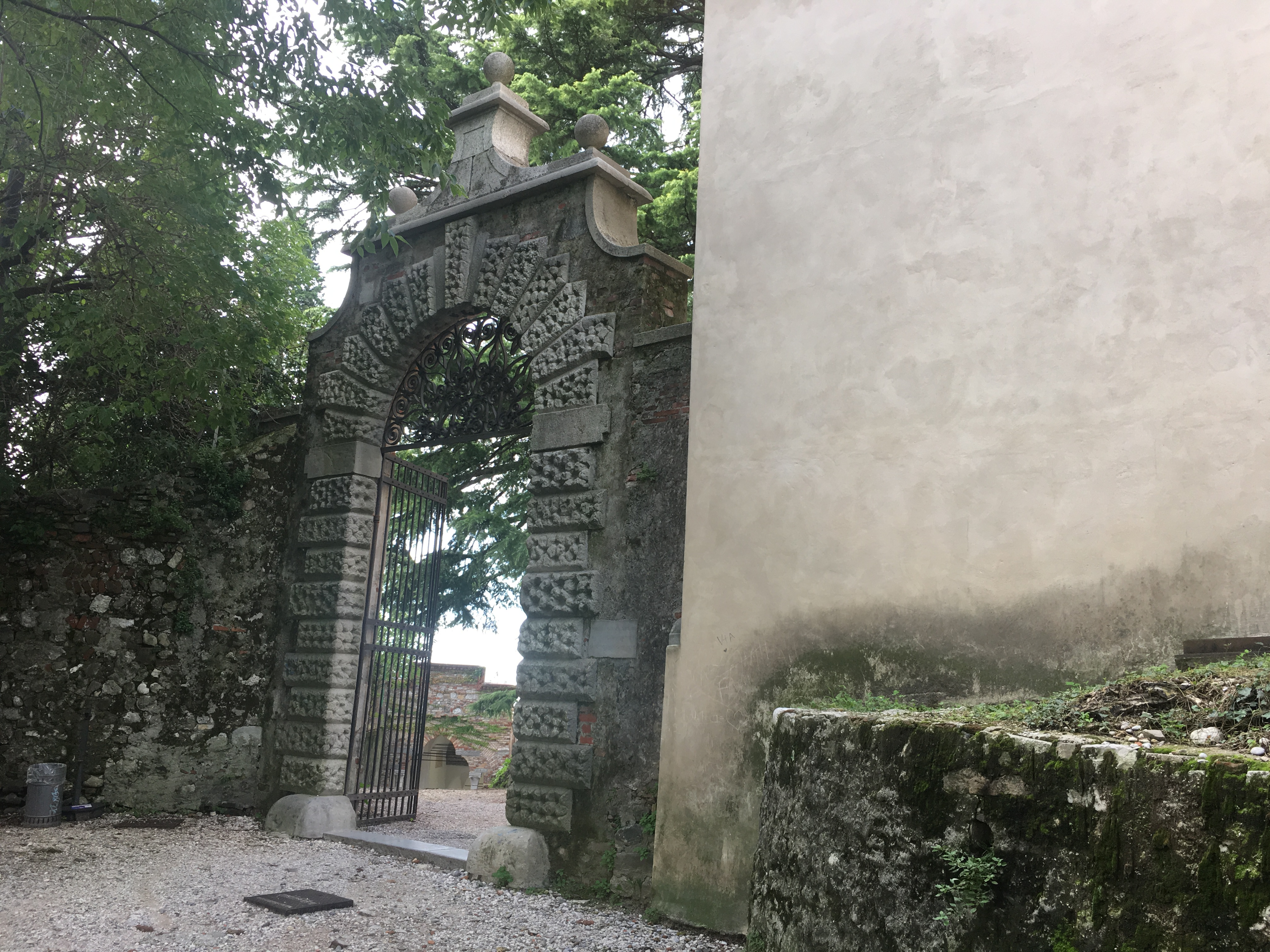 Porta alta castello Udine